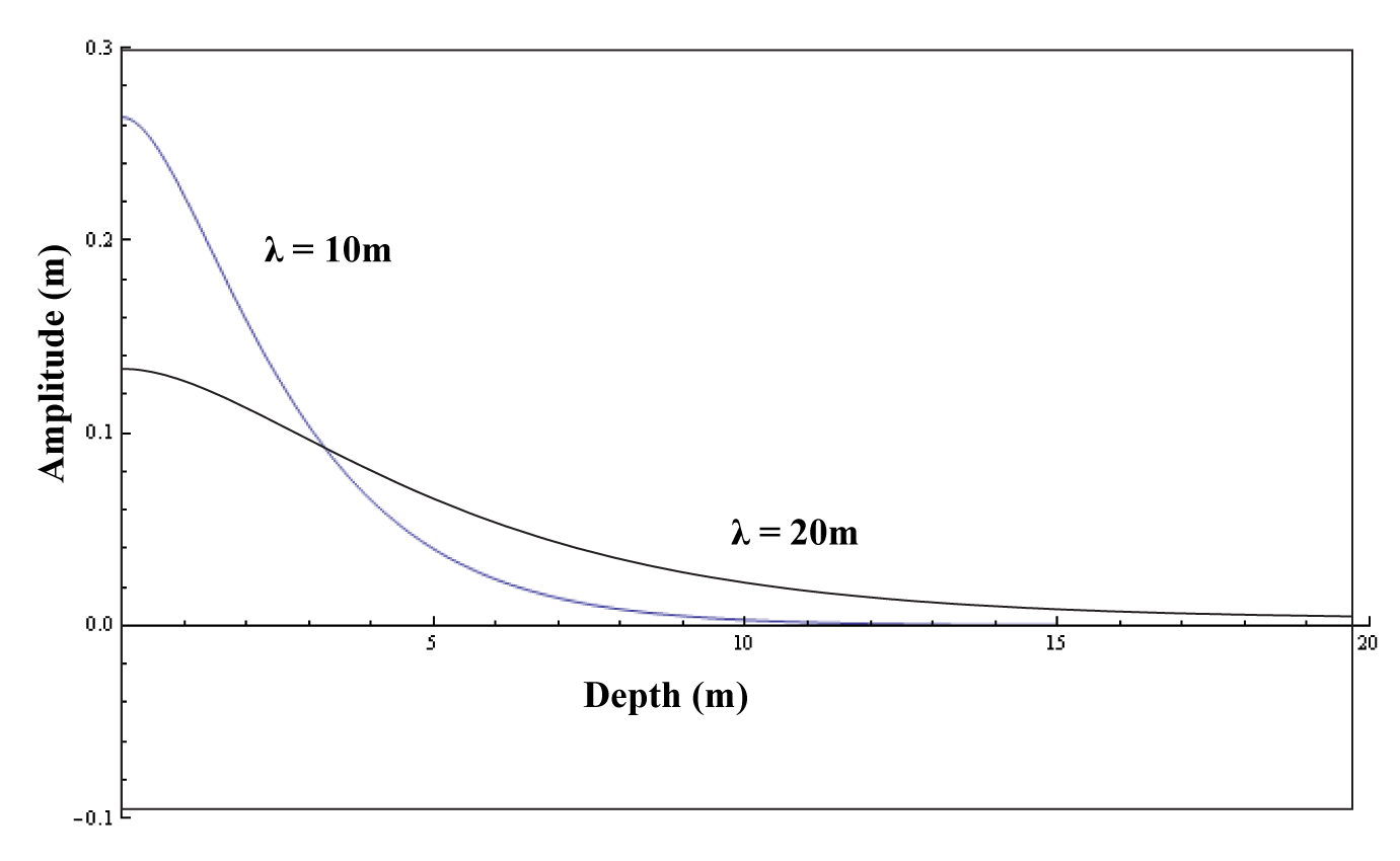 Graph of amplitude versus depth for two Rayleigh waves with different wavelengths